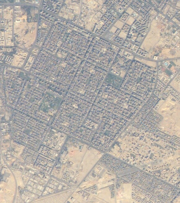 Nasr City - Cairo - Egypt from above